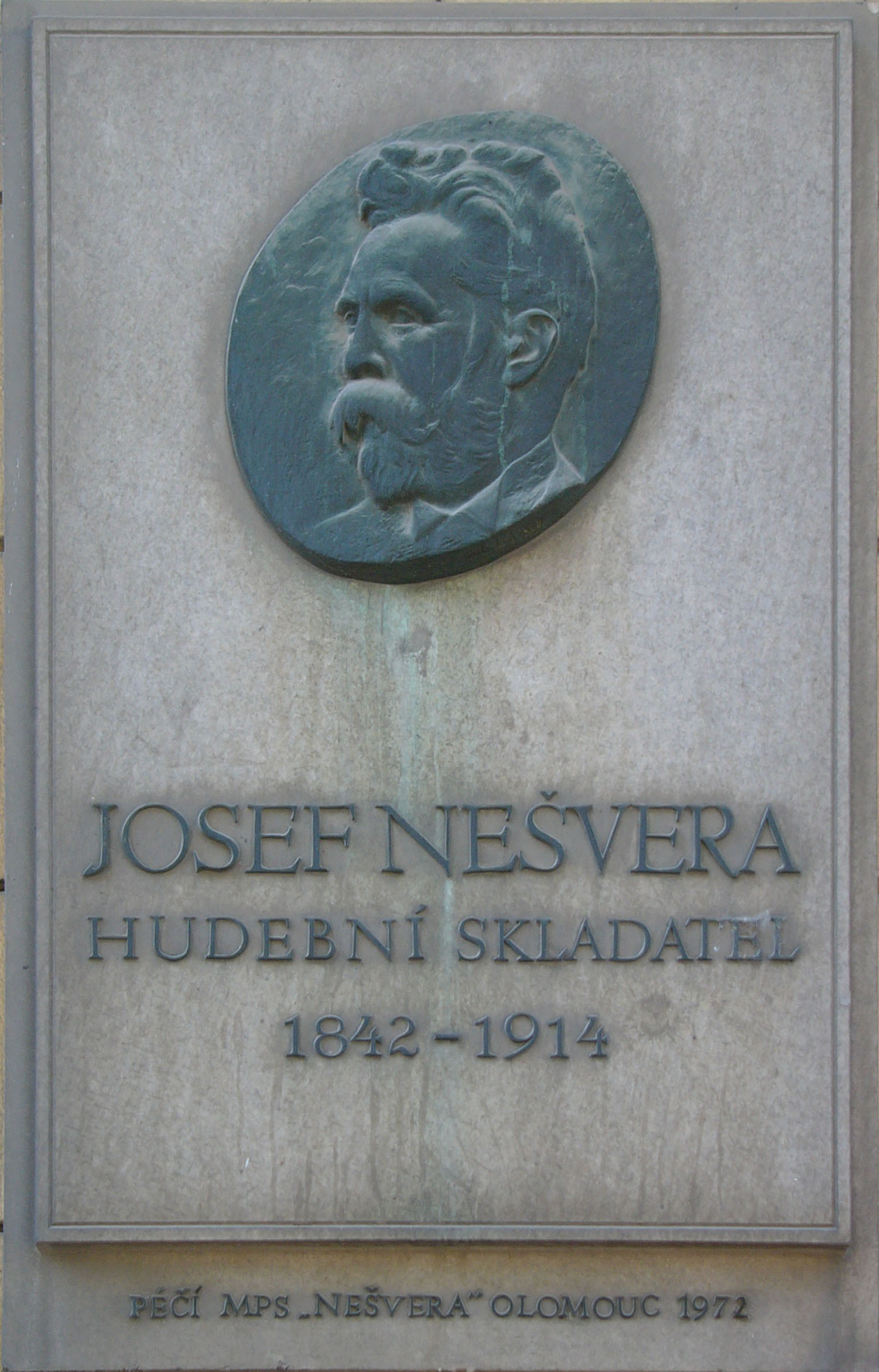 Memorial plaque of Josef Nešvera at house in Komenského street, Olomouc, the Czech Republic made by Karel Lenhart.